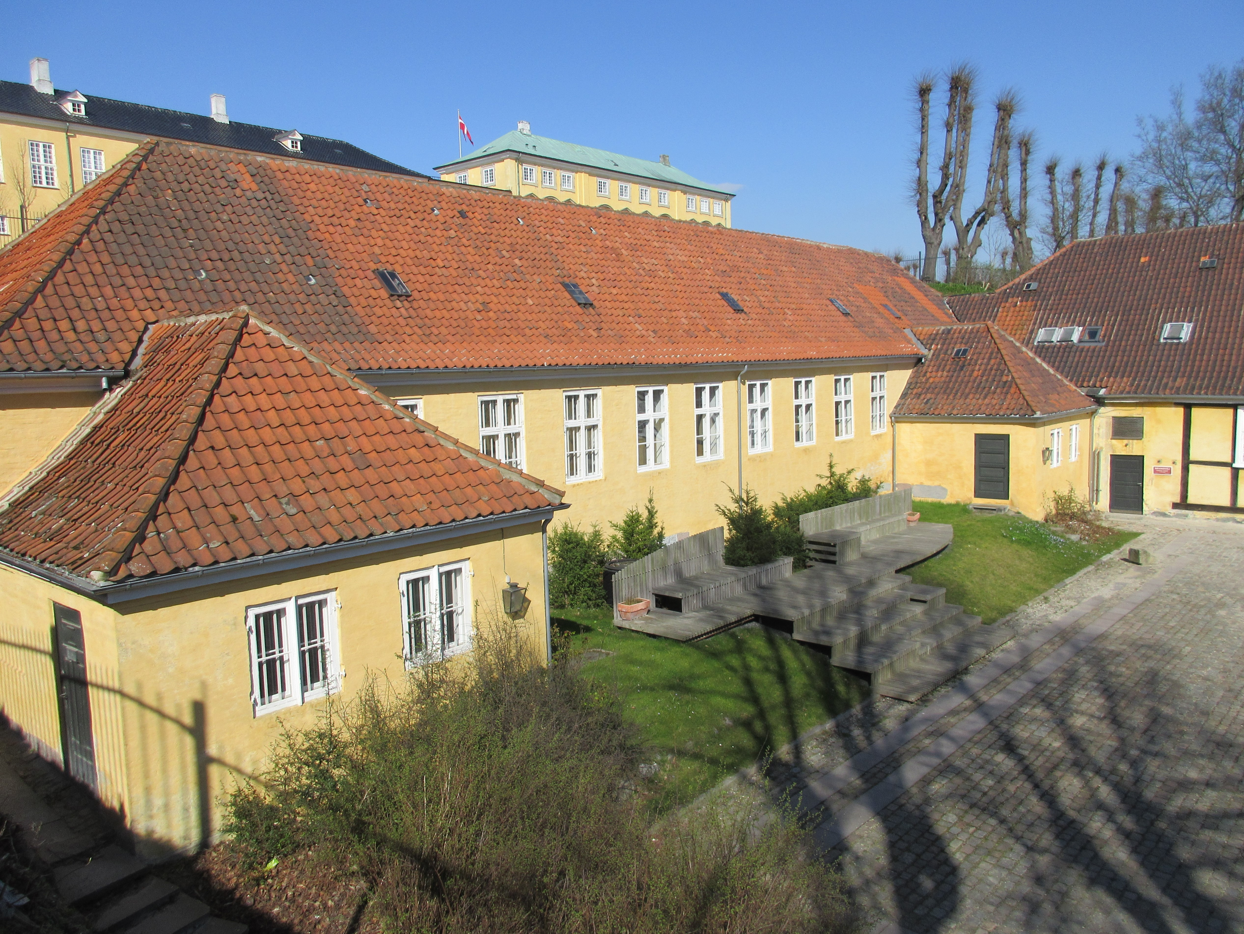 The west wing of Lakajgården in Frederiksberg, Denmark